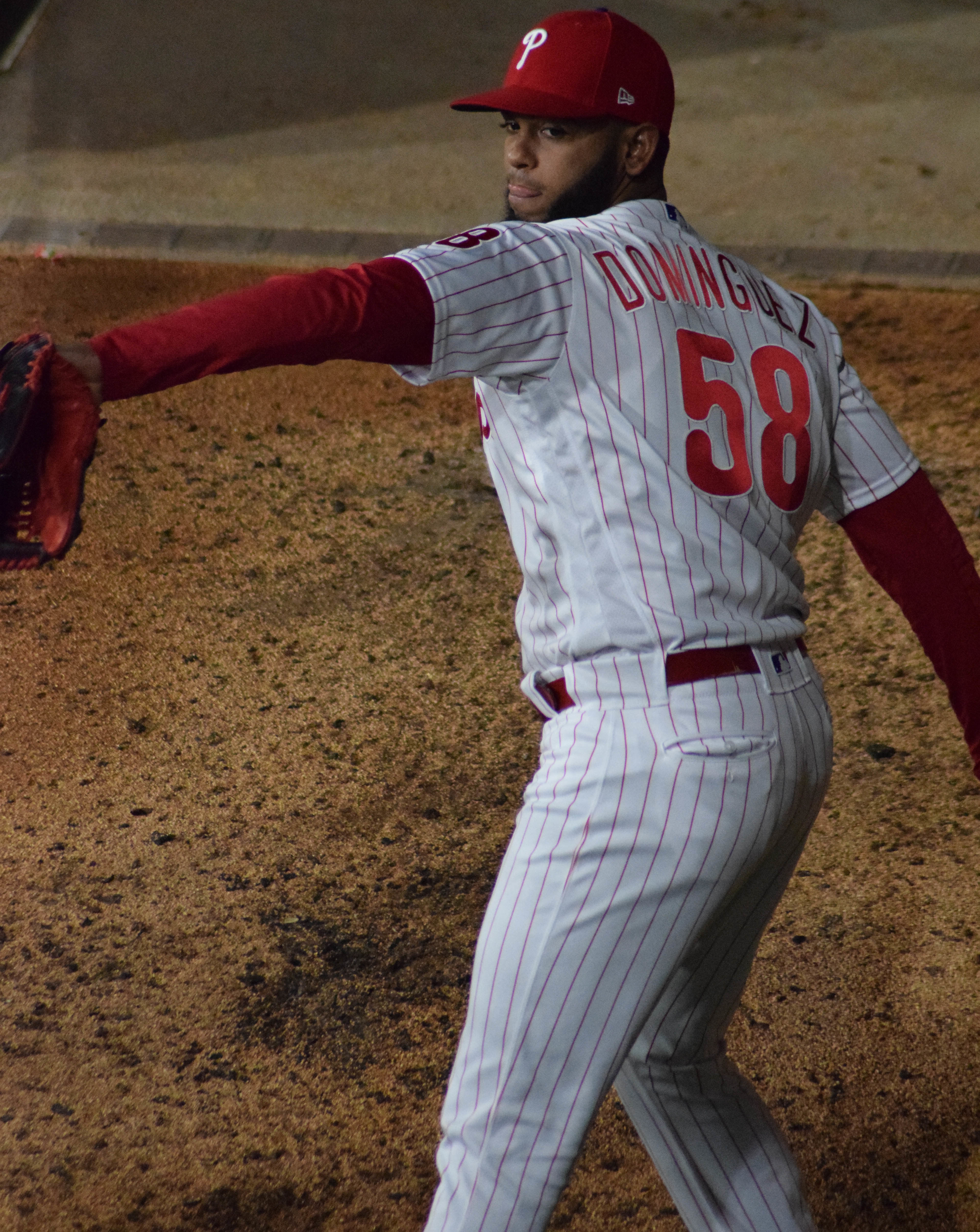 Seranthony Domínguez